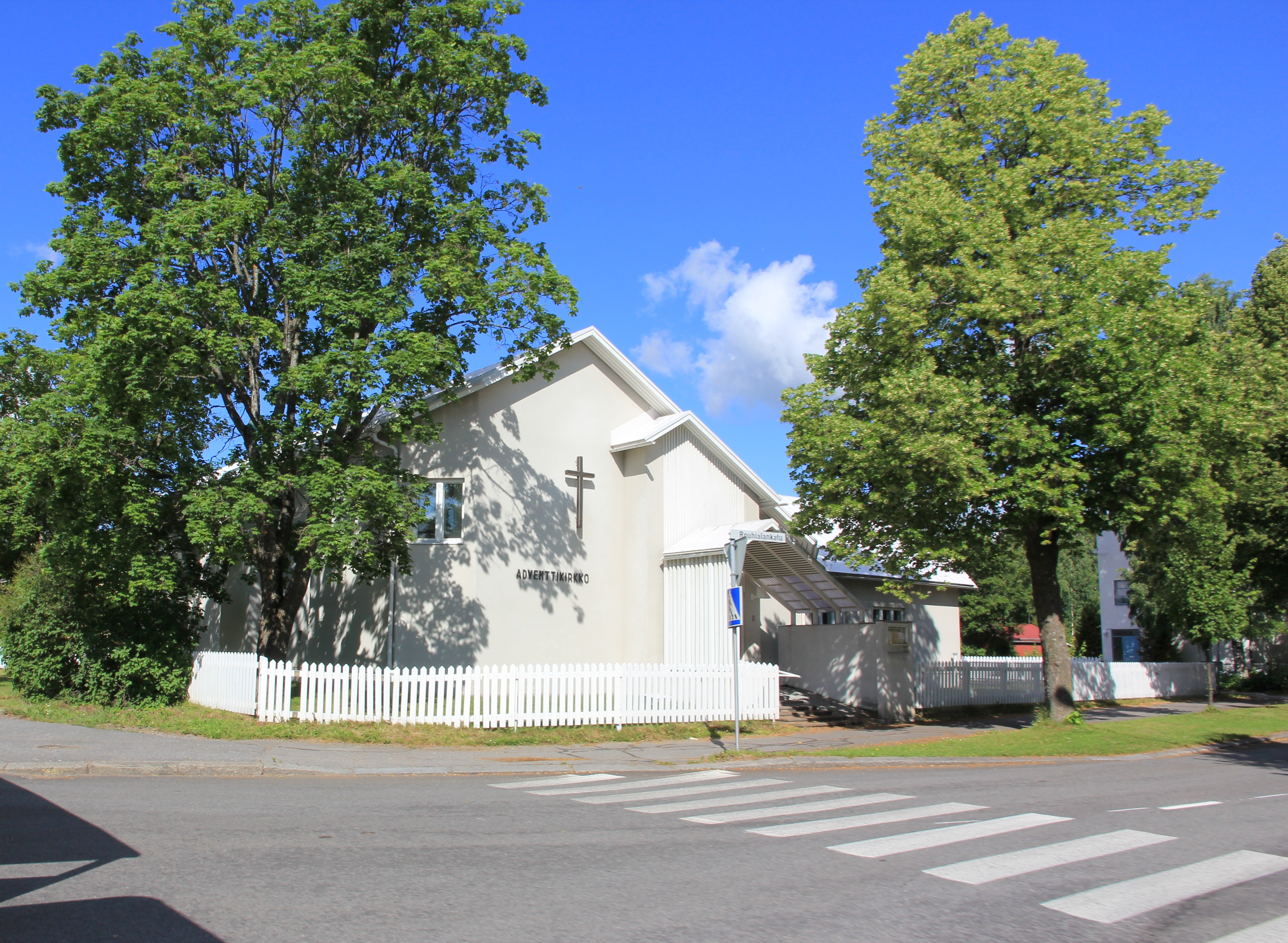 Mikkeli adventist church, address Maaherrankatu 27.